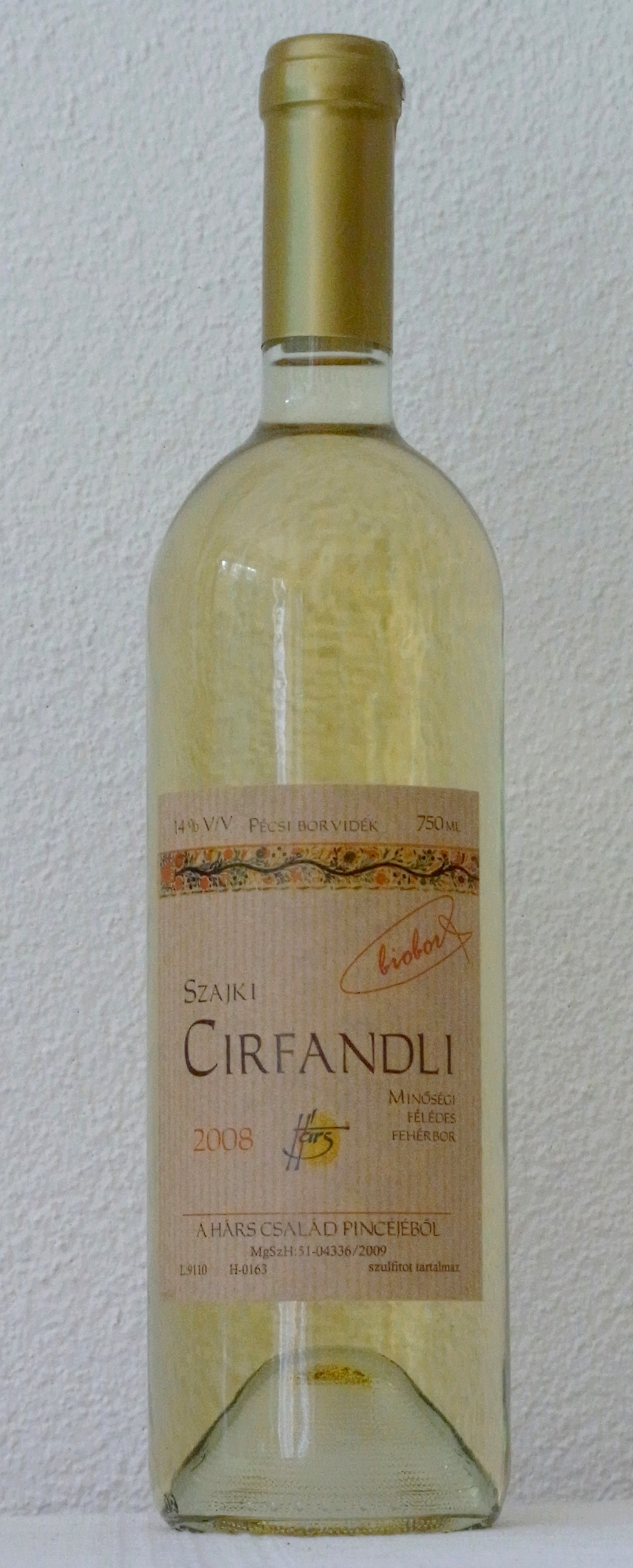 Zierfandler / Cirfandli wine from Hungary